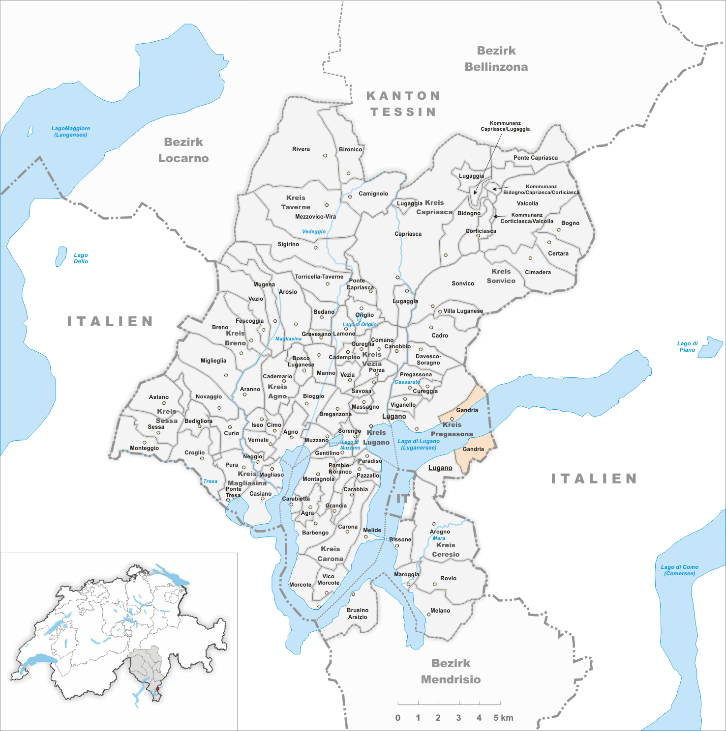 Municipality Gandria Artist: Tschubby